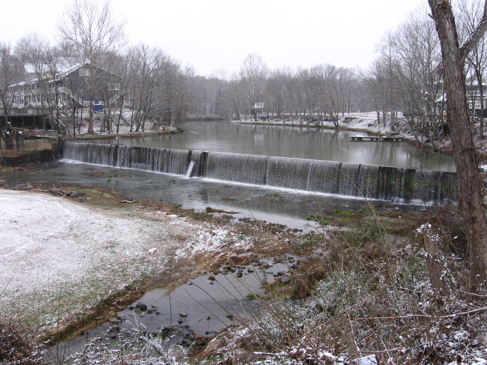 Buck Creek flows over the dam in Helena, Alabama during a rare snowfall